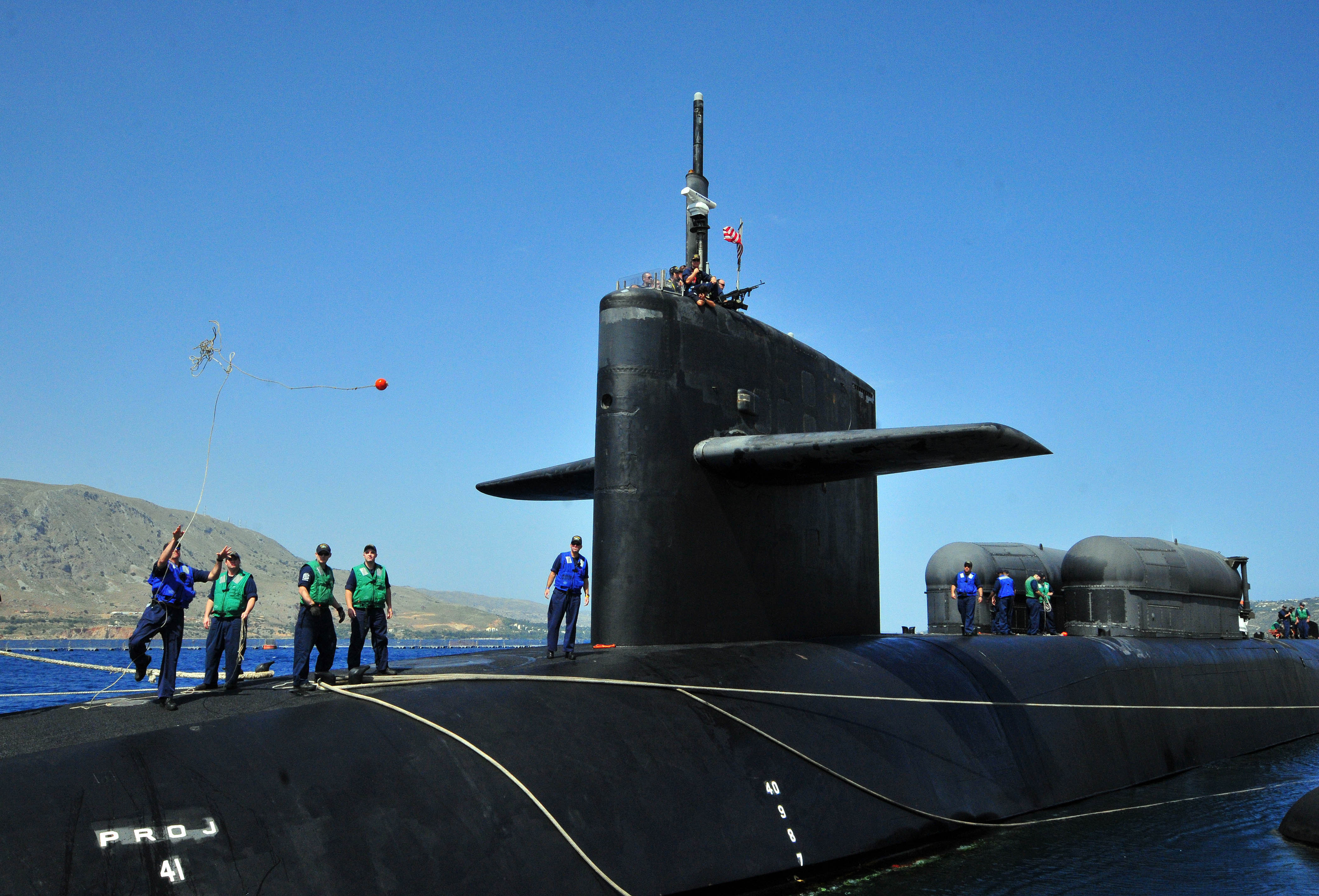 A sailor assigned to the Ohio-class guided-missile submarine USS Florida (SSGN 728) heaves a line ashore as the submarine arrives for a port visit on the island of Crete. Florida is homeported in Naval Submarine Base Kings Bay, Ga., and is on a scheduled deployment in the U.S. 6th Fleet area of responsibility. (U.S. Navy photo by Paul Farley/Released)